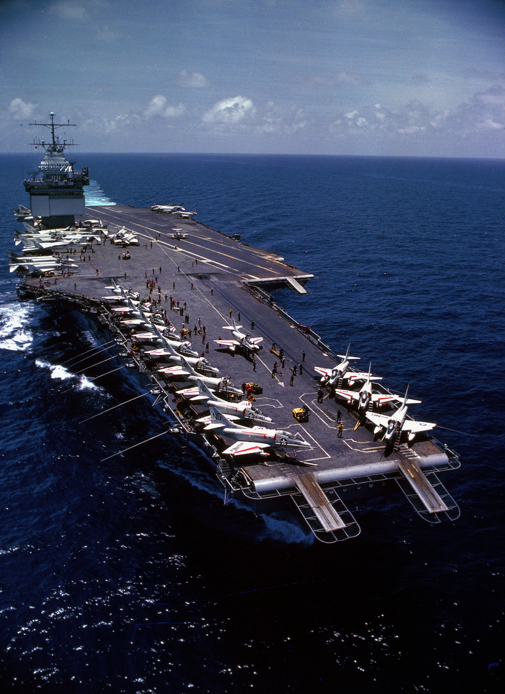 The nuclear powered aircraft carrier USS Enterprise (CVAN-65) cruises in the clear blue water of the Gulf of Tonkin off the shores of Vietnam on 28 May 1968. Enterprise, with assigned Attack Carrier Air Wing 9 (CVW-9), was deployed to the Western Pacific and Vietnam from 26 October 1965 to 21 June 1966.